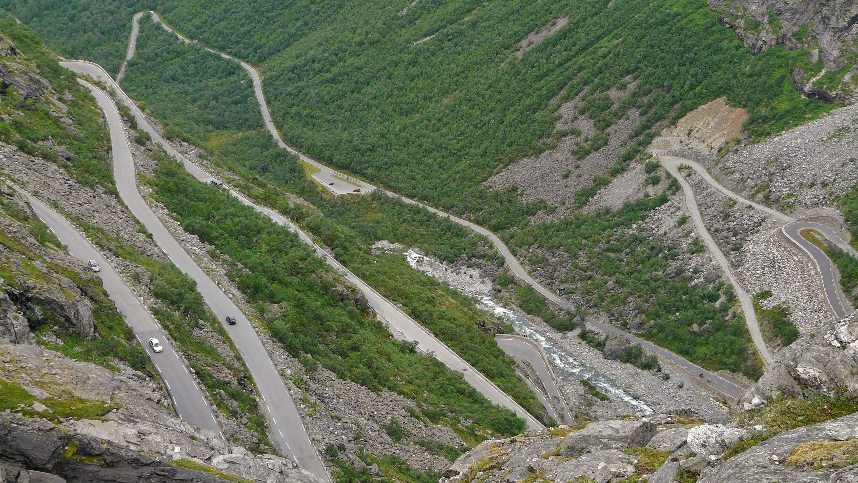 Trollstigen as seen from the far end of Isterdalen near the top of Stigfossen in 2008 August.